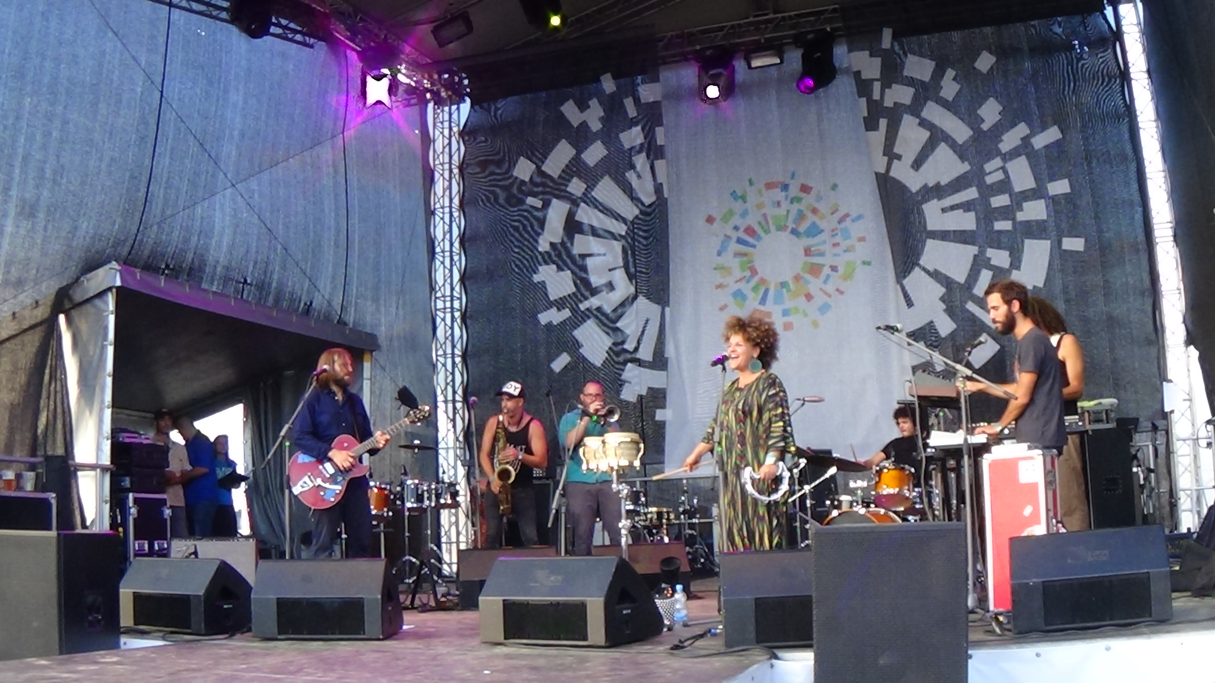 The Kutiman Orchestra performing at the Tel Aviv Beach Festival in Riga, Latvia in August 2014.